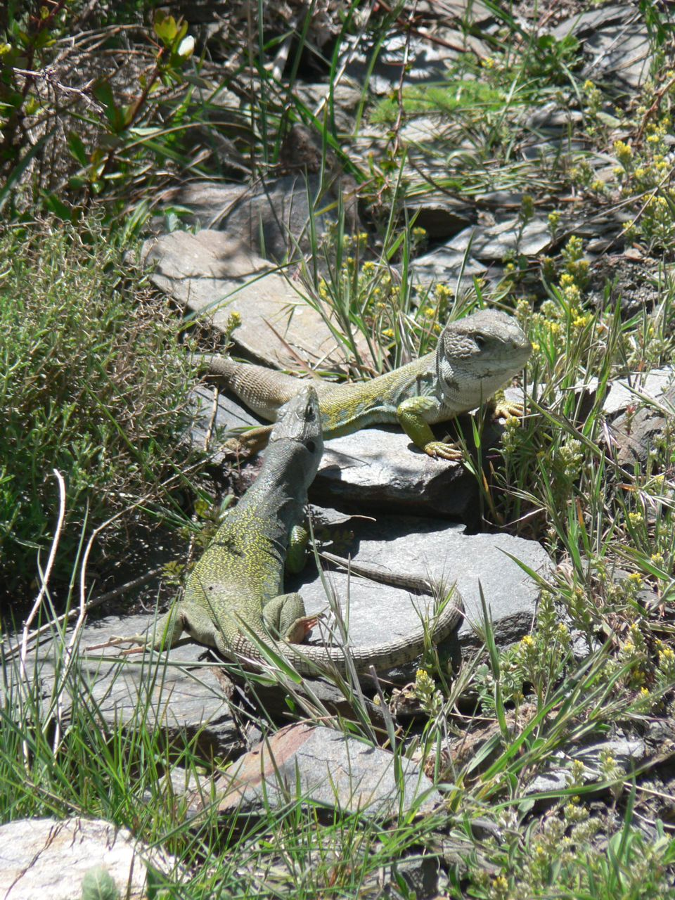 Male and female ocellated lizard, Timon lepidus, courting.